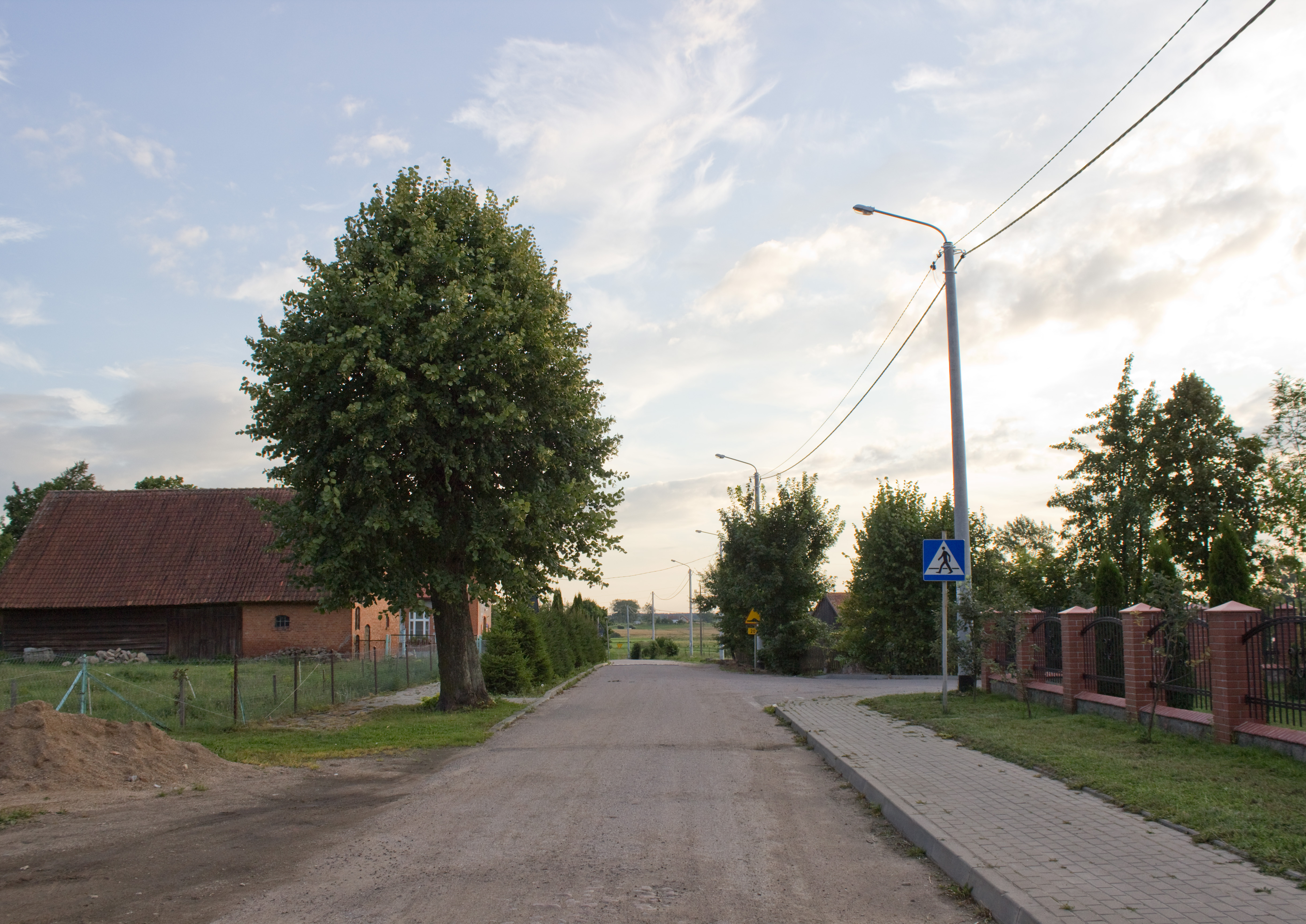 Wiśniowo Ełckie, gmina Prostki, powiat ełcki, Warmian-Masurian Voivodeship